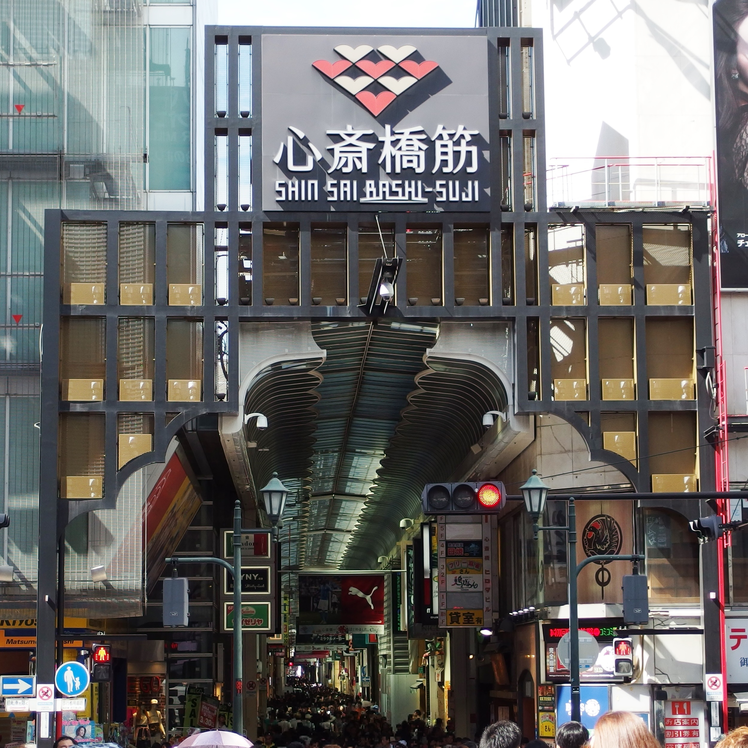 Shinsaibashi, Osaka, Osaka Prefecture, [Japan